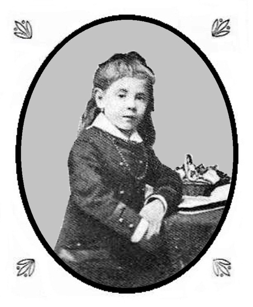 Photograph of Amélie Diéterle, then child at the age of six years, taken in Lunéville or Saint-Germain-en-Laye, around 1877-1878. Amélie Diéterle is a French comedian and an Art collector, born in Strasbourg on 20 February 1871 and died in Cannes on 20 January 1941. She was legitimated in Paris in 1892 by Captain Louis Laurent, Knight of the Legion of Honor. Amélie Diéterle married in Vallauris on 16 June 1930 with André Simon (1877-1965). Amélie Diéterle plays mainly at the Théâtre des Variétés in Paris during the Belle Époque.